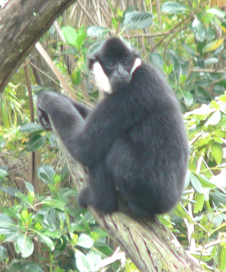 Male White-cheeked Crested Gibbon in Disney's Animal Kingdom.